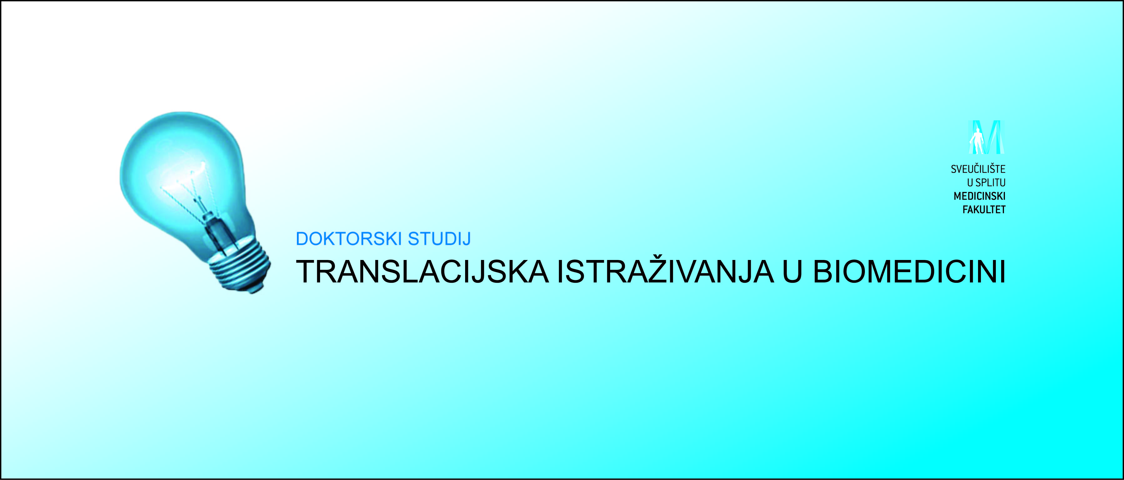 Logo: Translational research in biomedicine (TRIBE) graduate program